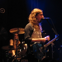 GPG signed copyleft notice, which is also available as -----BEGIN PGP SIGNED MESSAGE----- Hash: SHA1 Image Photo taken by Jeroen Massar ( at the Opeth concert in De Boerderij, Zoetermeer, The Netherlands on 2005-12-22. Released to the Public Domain so that, amongst others, Wikipedia can benefit from it. Text signed by my PGP key as proof of copyleft. -----BEGIN PGP SIGNATURE----- Version: GnuPG v1.4.6 (GNU/Linux) Comment: Jeroen Massar / iD8DBQFG5Go+KaooUjM+fCMRAtZpAKCP2/c4uZGqlFiupzNp+Jh+5NBS5wCfZVv2 lMdPcpXUtvkYO0FDzkr4zWQ= =FRe9 -----END PGP SIGNATURE